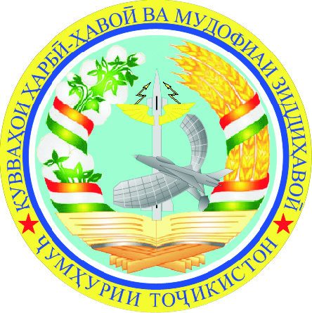 Парчами ҚУВВАҲОИ ҲАРБӢ-ҲАВОӢ ВА МУДОФИАИ ЗИДДИ ҲАВОИИ ВАЗОРАТИ МУДОФИАИ ҶУМҲУРИИ ТОҶИКИСТОН